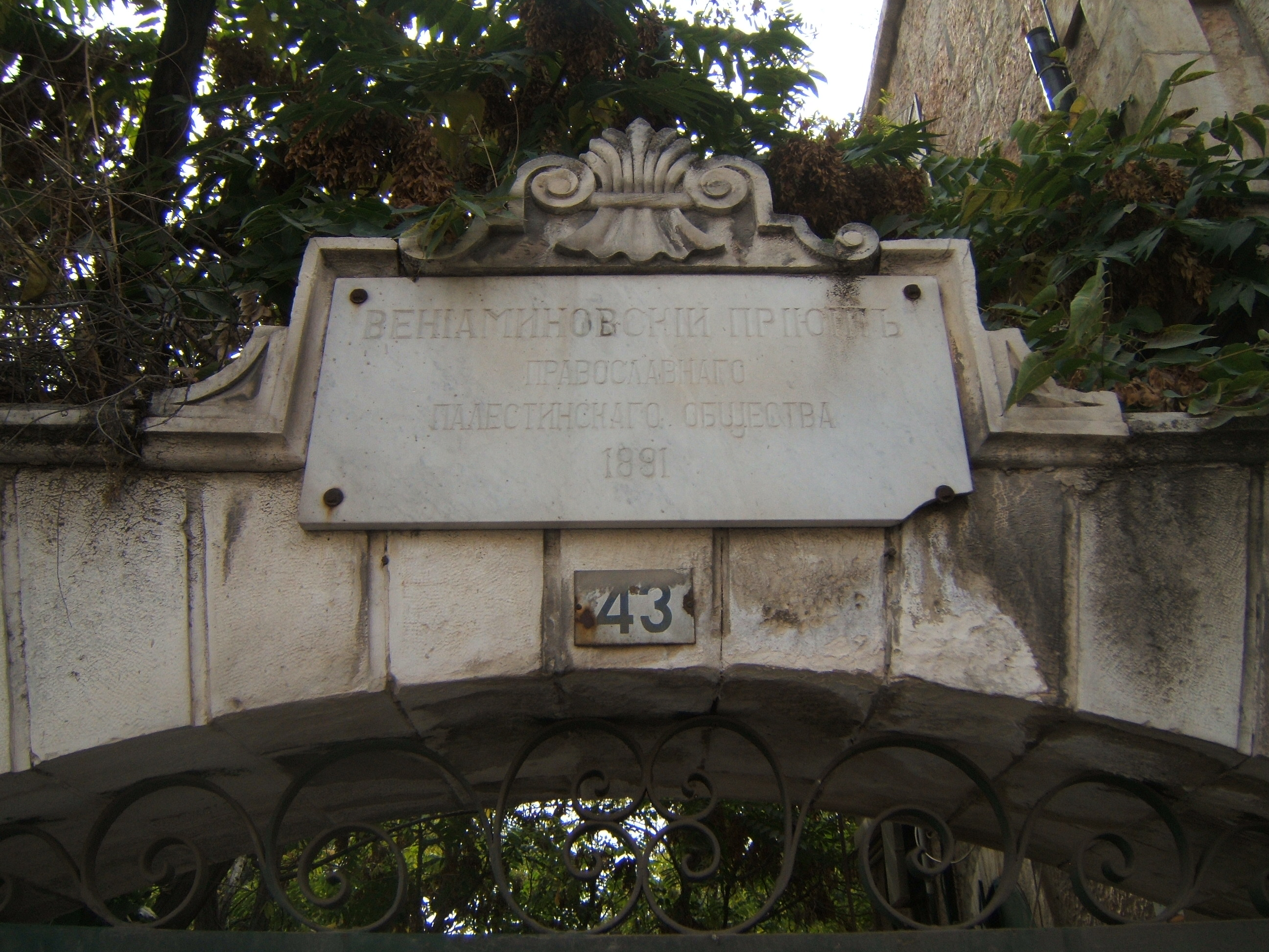 43 Street of Prophets, Jerusalem